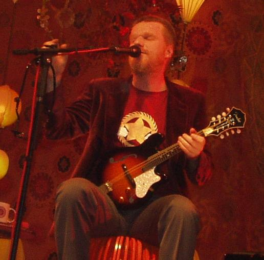 Humberto Gessinger durante show em Umuarama - PR.